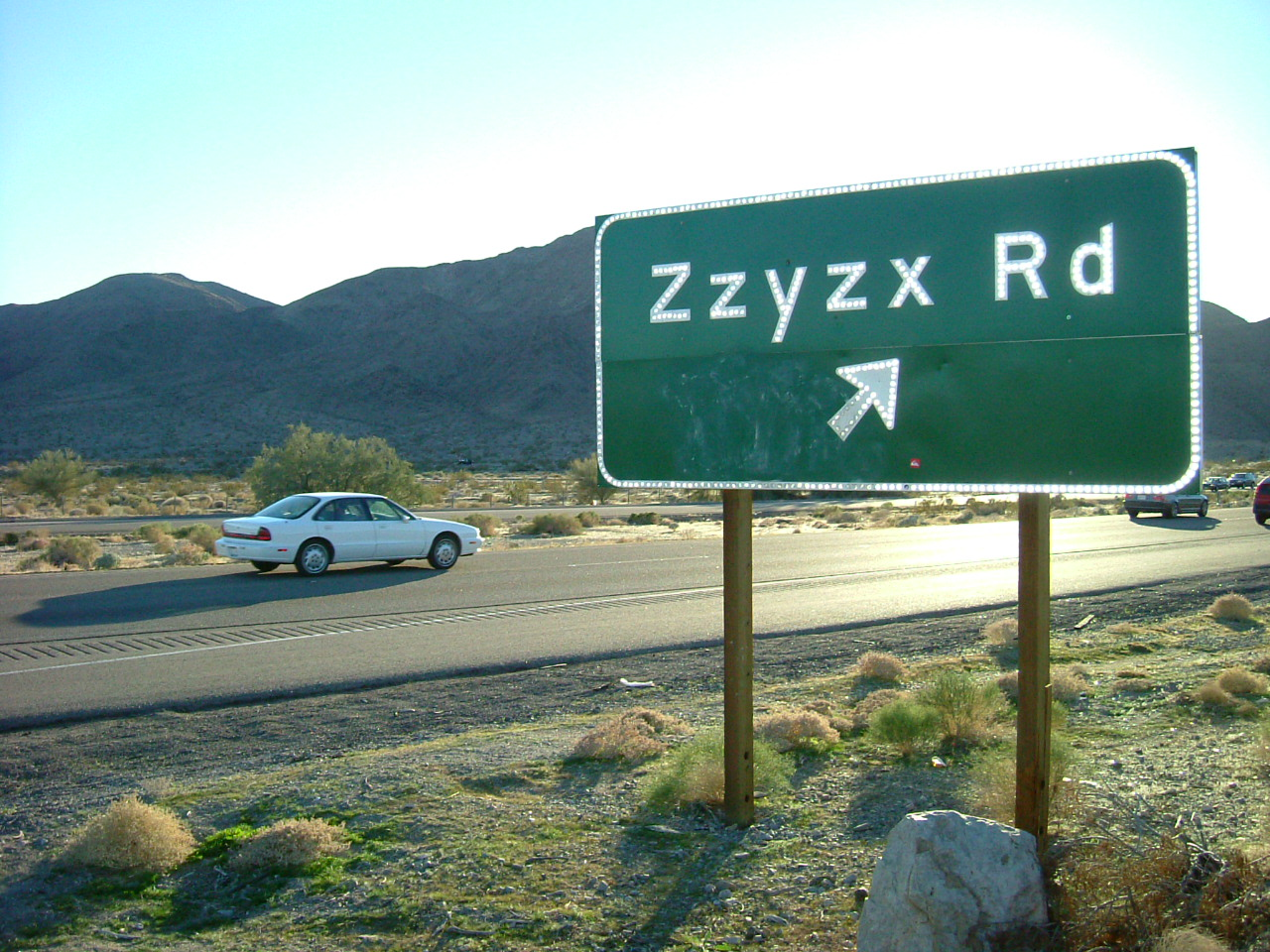 Road sign for the Zzyzx Road interchange on I-15 — to Zzyzx, California